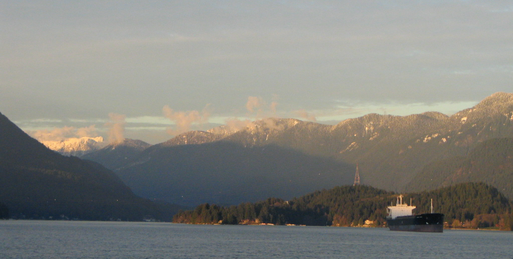 This image was created by me, Flying Penguin of Pacific Spirit Photography ( of Burnaby, British Columbia, Canada